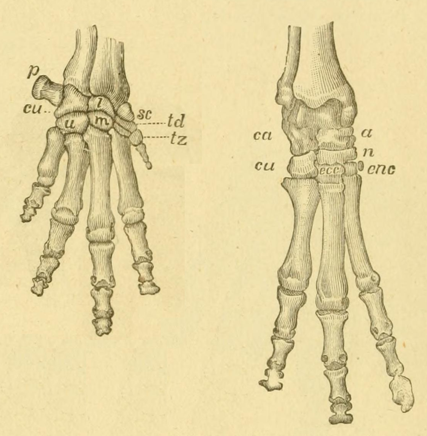 Hand and feet of hyrax. Clearly visible is the taxeopod arrangement of the carpals and tarsals.